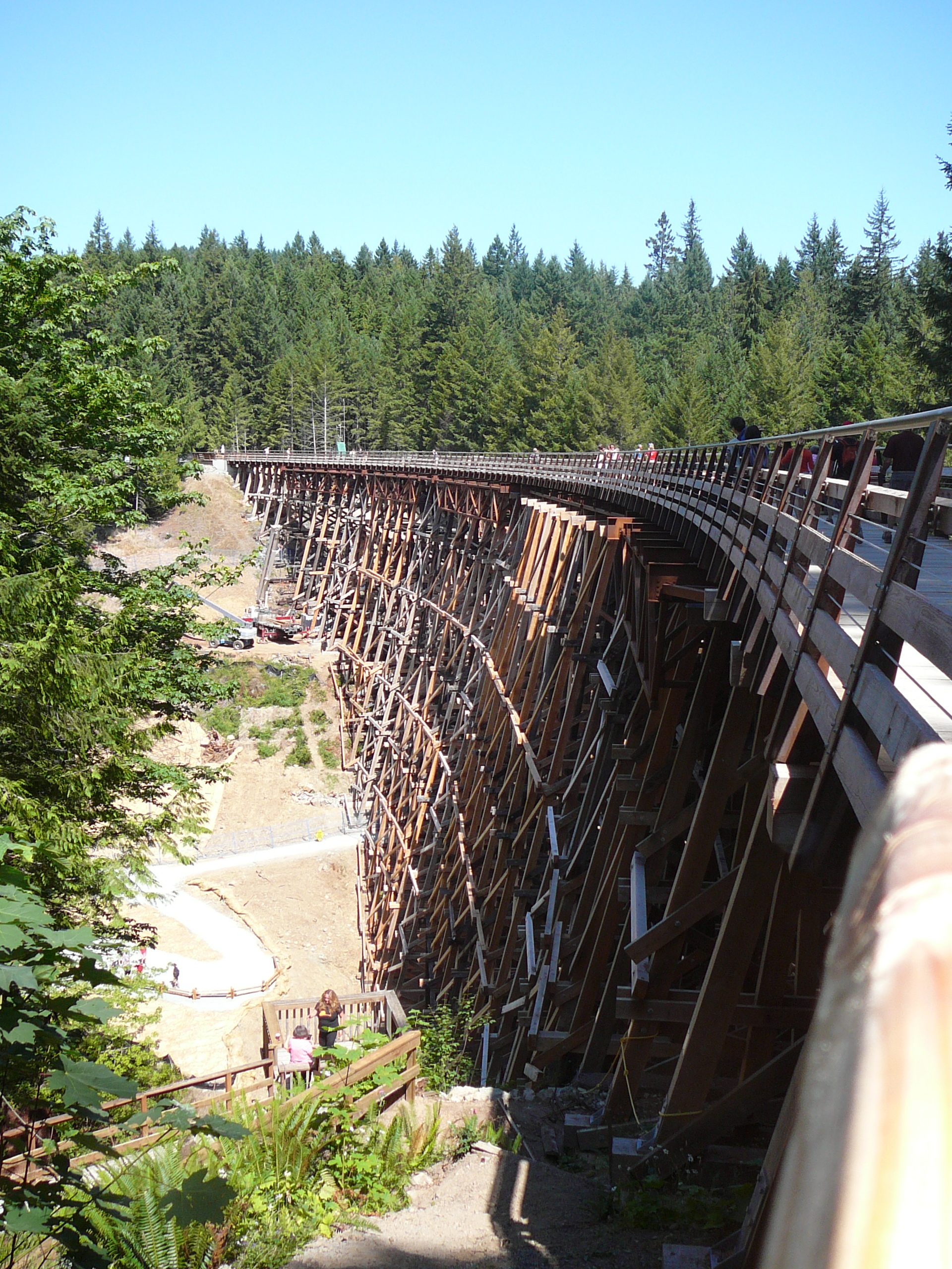 Looking out over the Kinsol Trestle